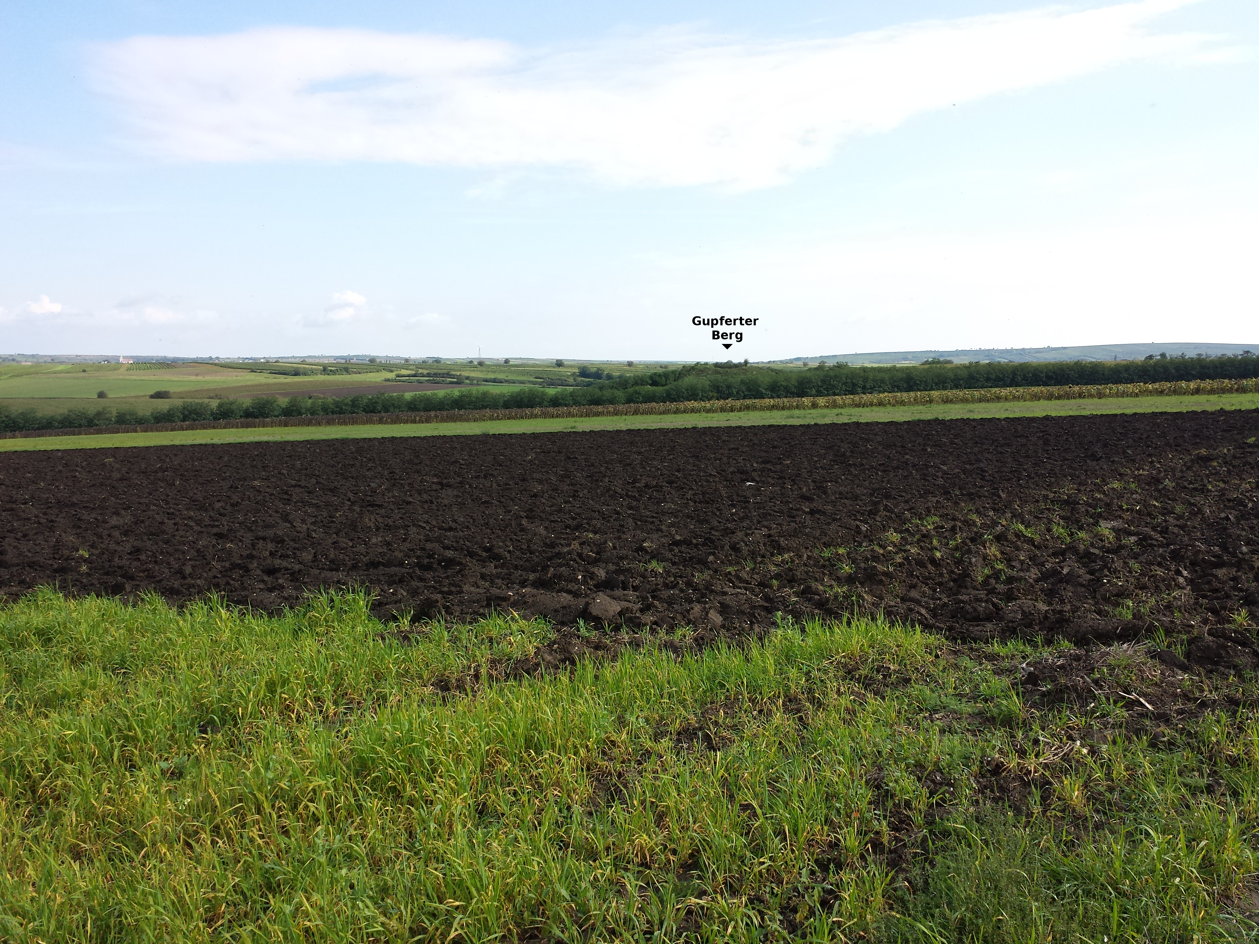 Gupferter Berg (former motte-and-bailey castle) near Unternalb, district Hollabrunn, Lower Austria Motte seen from the South-west